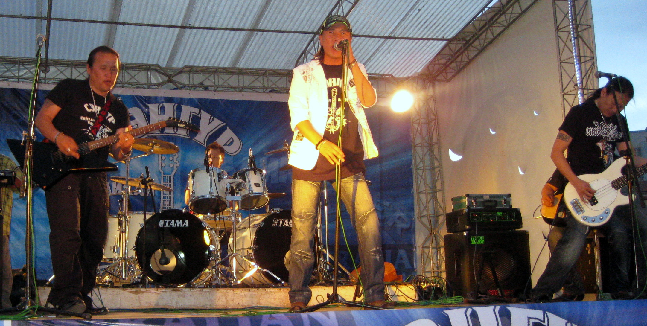 Hurd performing during a DVD release party. June 26th 2009. Grand Khan irish pub, Ulaanbaatar, Mongolia. From left to right : Dambyn Otgonbayar (guitar), Dambyn Otgonbaatar (drums), Dambyn Tömörtsog (vocals) and Namsraijavyn Naranbaatar (bass).